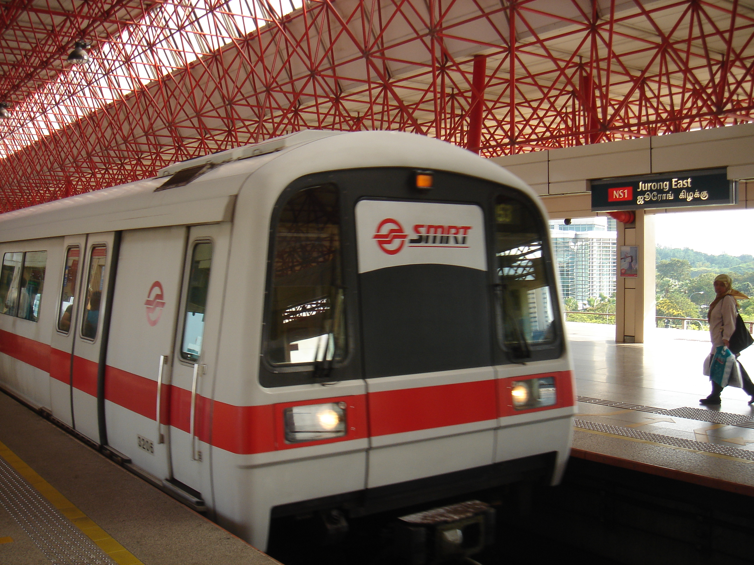 A C651 train approaching Jurong East MRT Station.(Current photo from depot, first photo heading towards Pasir Ris)